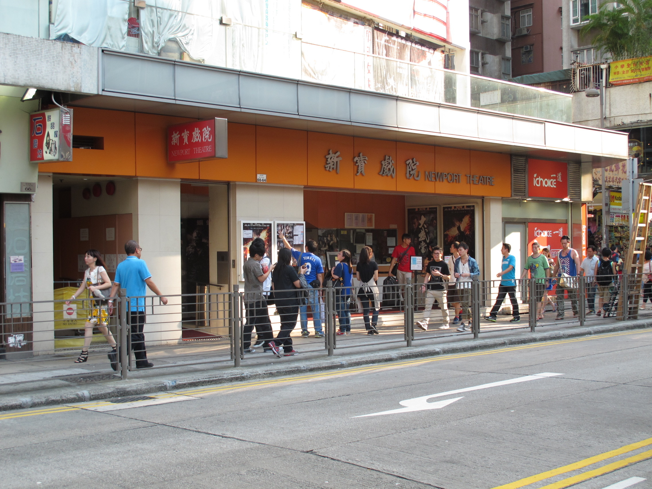 Newport Cinema, Mong Kok